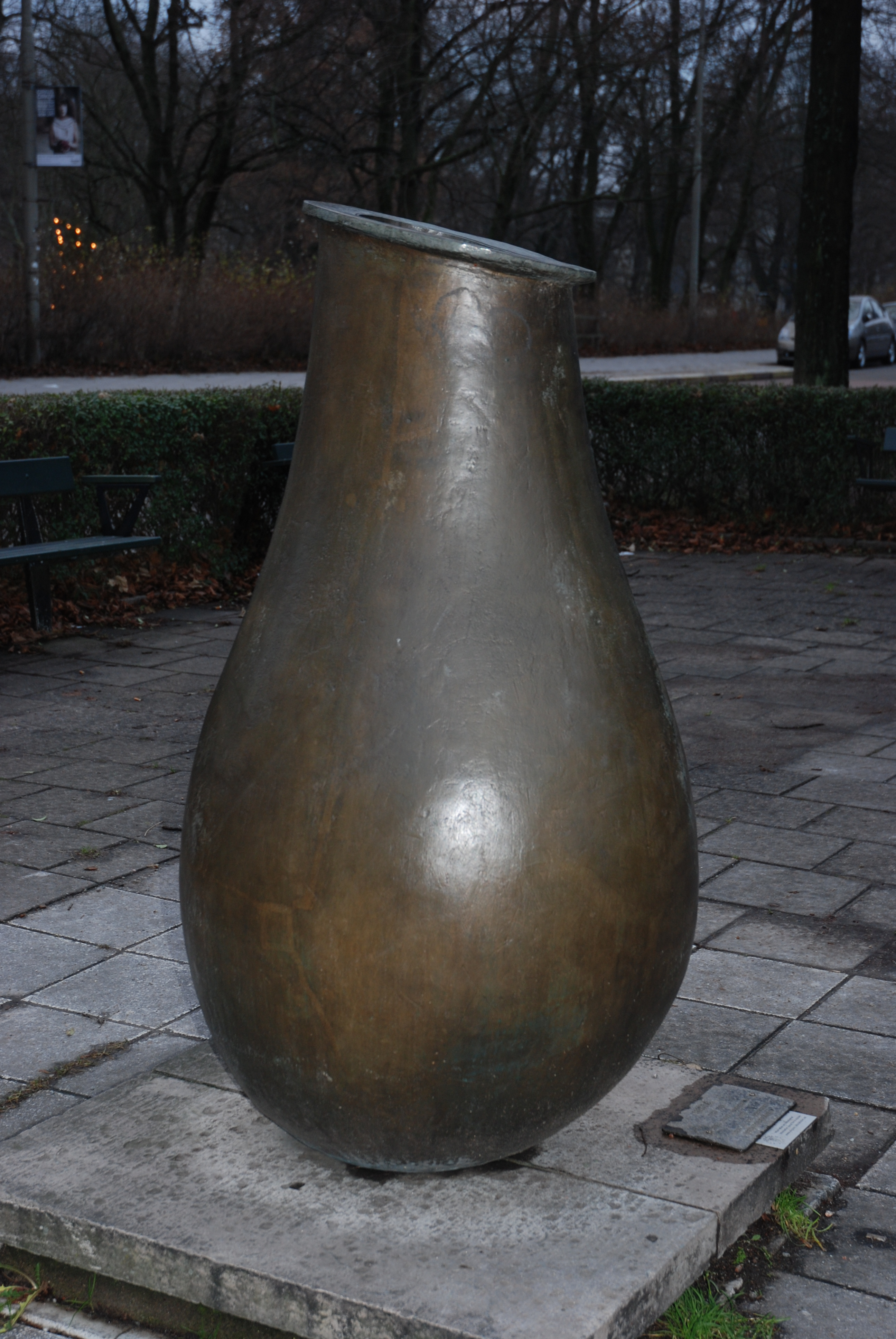 Vase (Urna) by Hedy Jolly-Dahlström, bronze, Karlavägen. Stockholm, Sweden